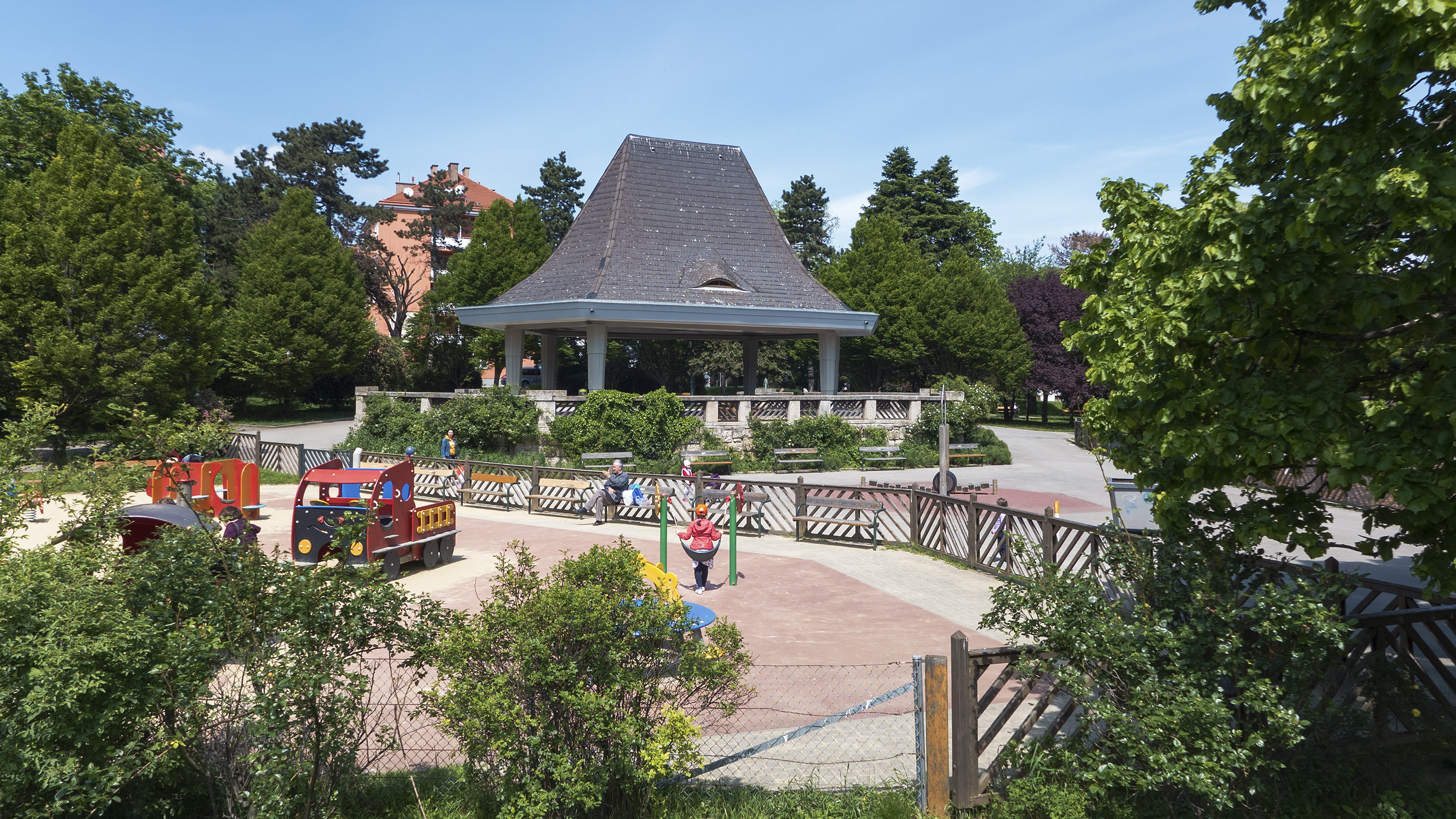 Municipal park Kongresspark in Vienna 16